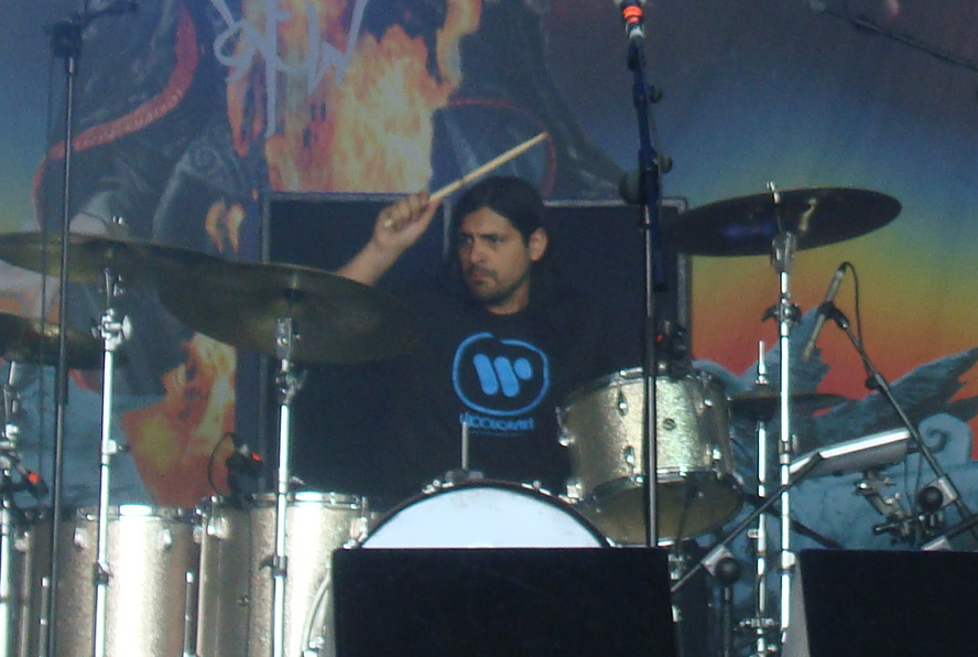 Santiago "Jimmy" Vela III performing with The Sword at the Azkena Rock Festival on June 28, 2013.